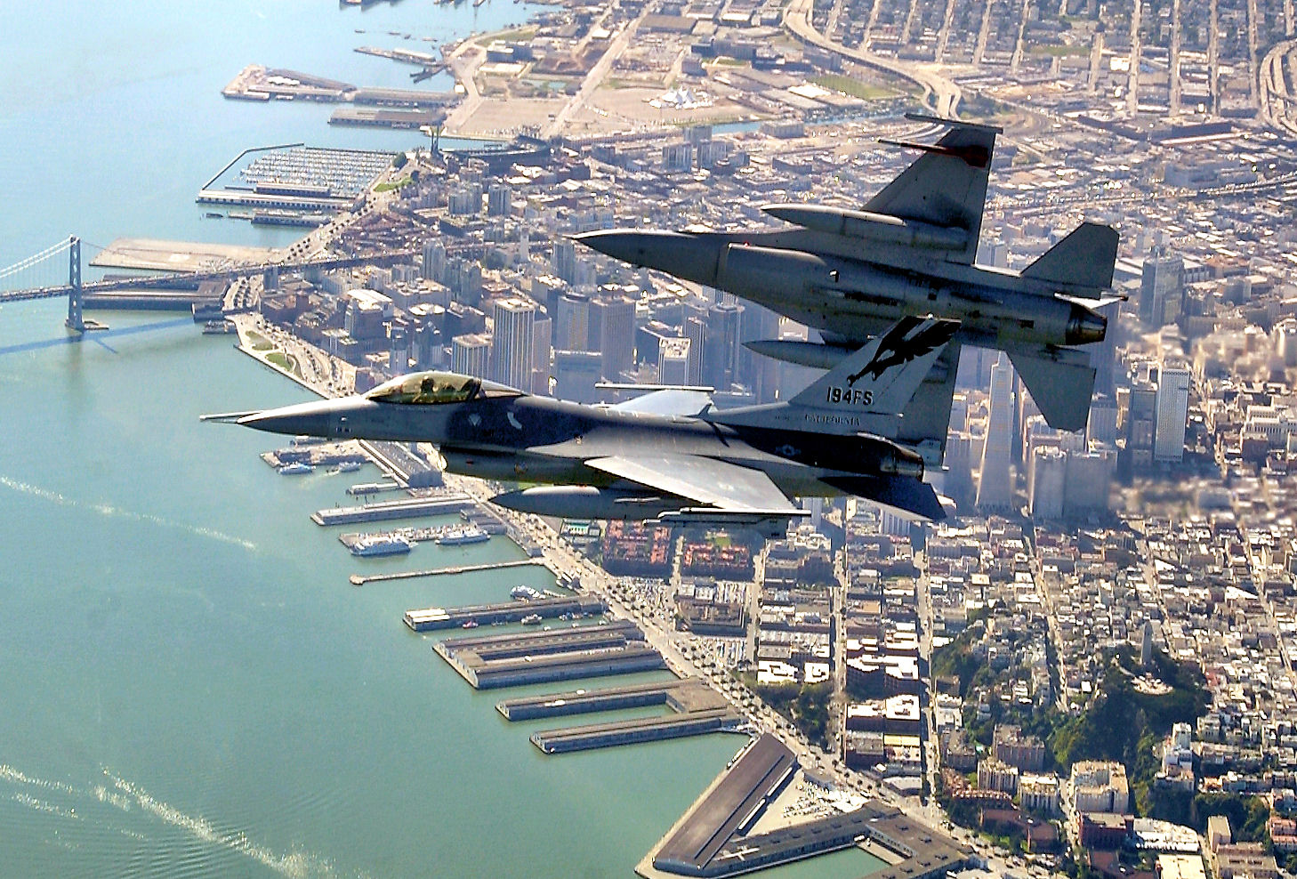 OVER THE SAN FRANCISCO BAY -- Two F-16 Fighting Falcons begin to roll into position for a rapid descent during an Operation Noble Eagle training patrol March 16. The F-16s are assigned to the California Air National Guard's 144th Fighter Wing in Fresno. (U.S. Air Force photo by Master Sgt. Lance Cheung)